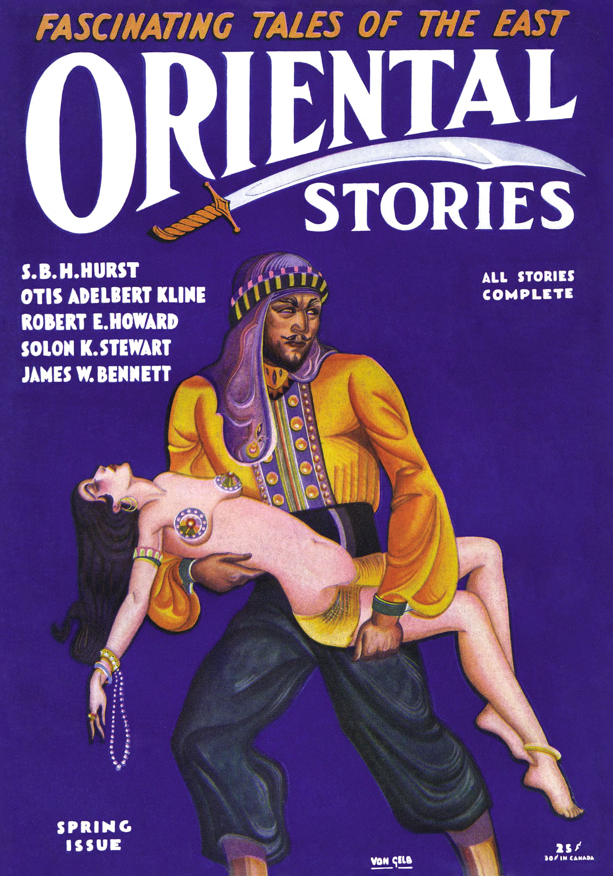 Cover of the pulp magazine Oriental Stories (Spring 1931, vol. 1, no. 4)